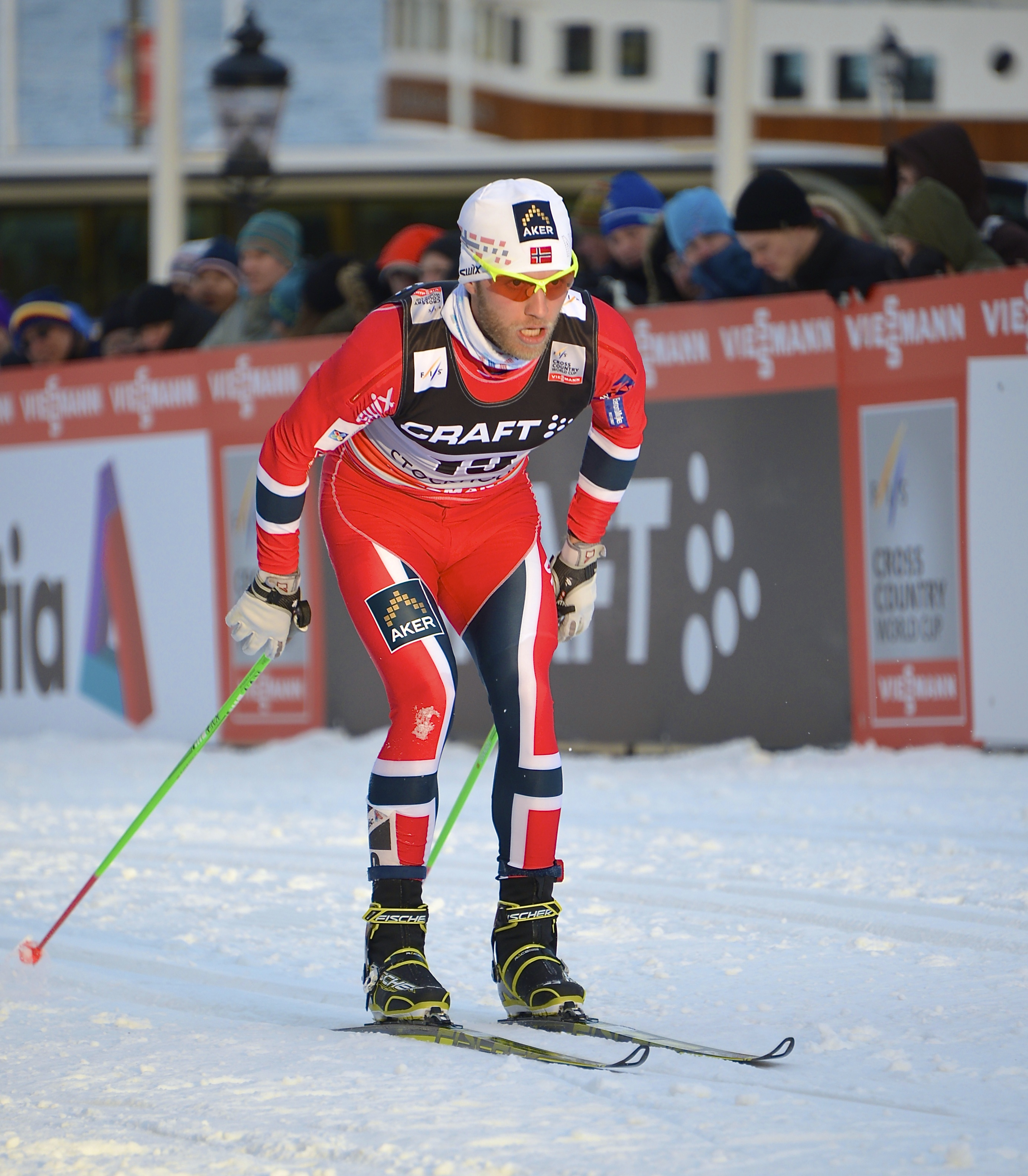 Martin Johnsrud Sundby at Royal Palace Sprint in Stockholm March 20, 2013